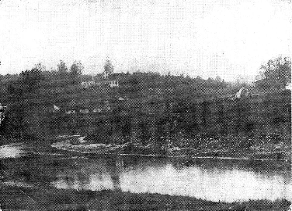 Daugirdava manor and estate near river Dubysa. Circa 1900. Author unknown.